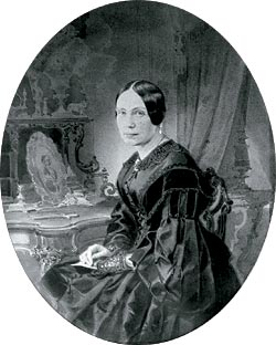 Idalia Poletica (hand-tinted daguerreotype)